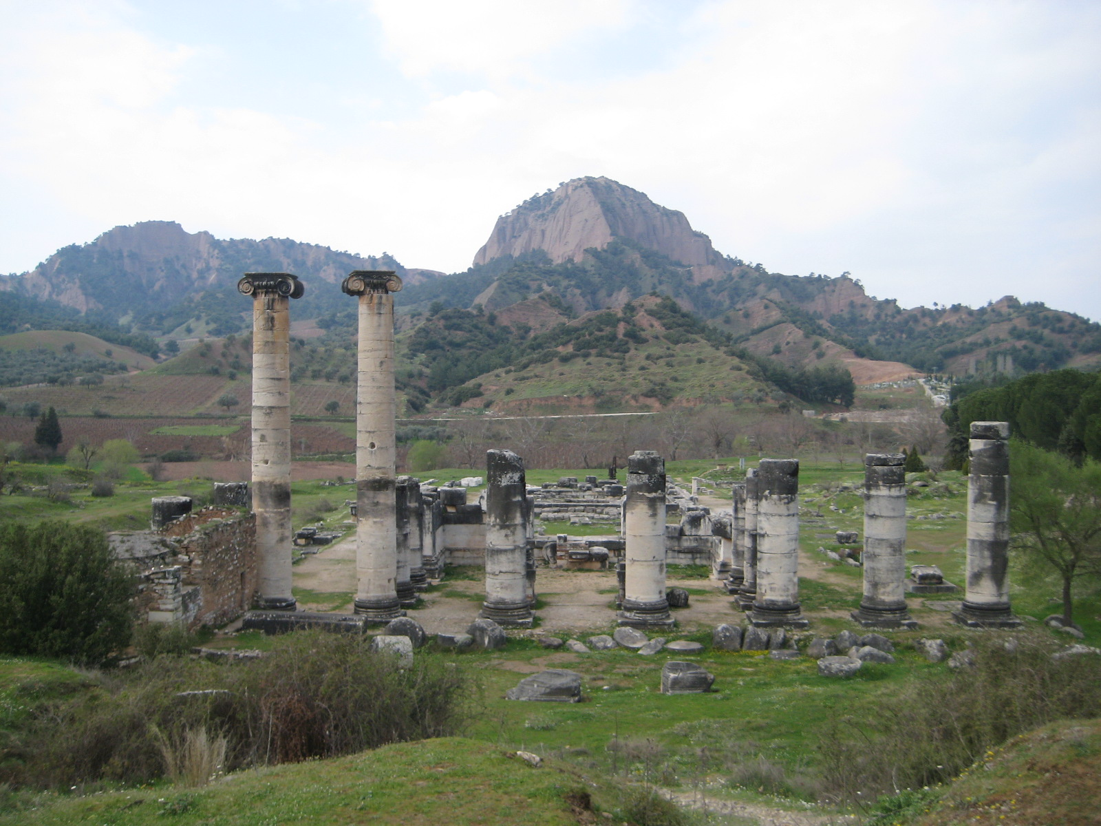 Temple of Artemis in Sadis, taken from a hill above it.